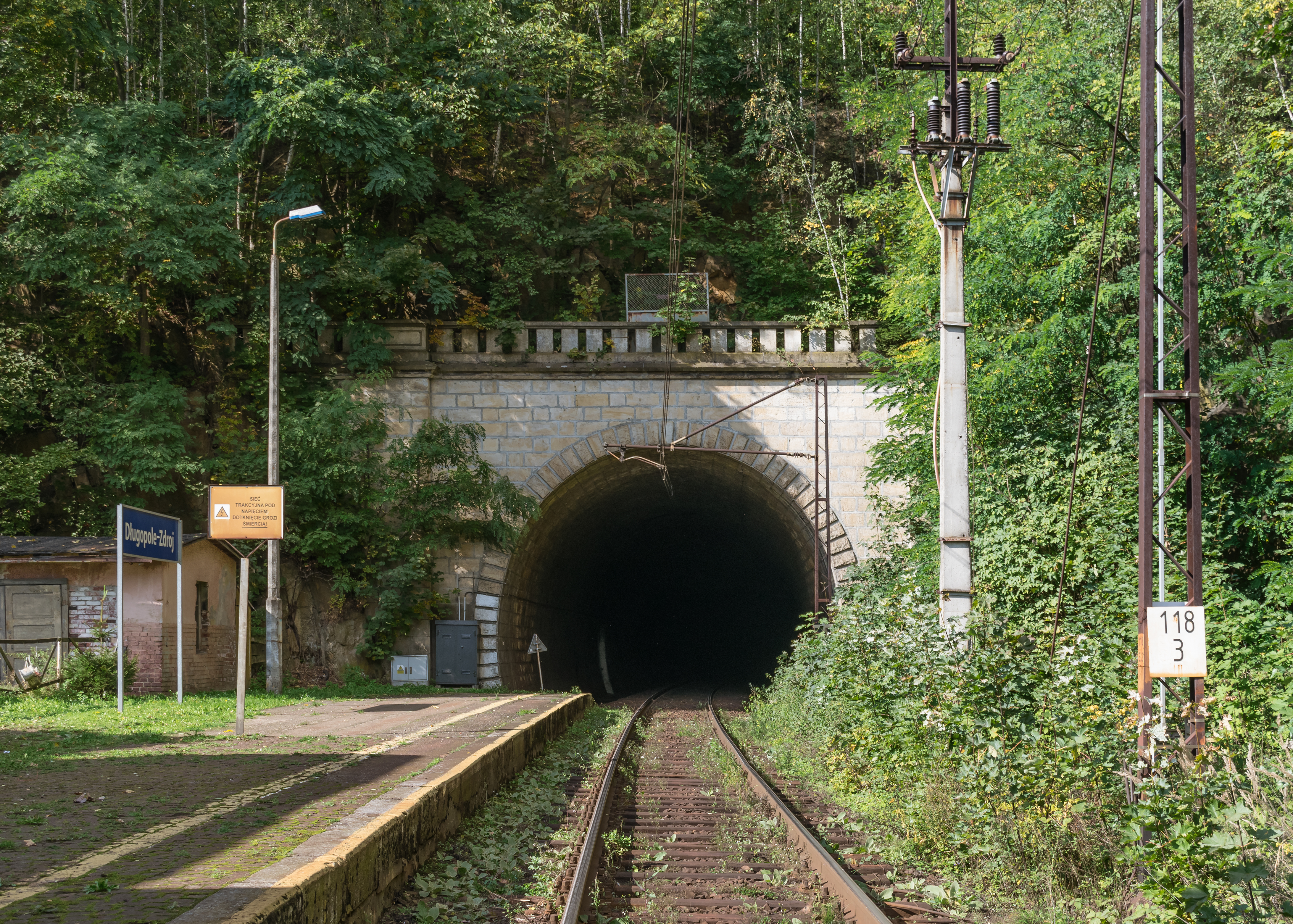 Rail tunnel in Długopole-Zdrój